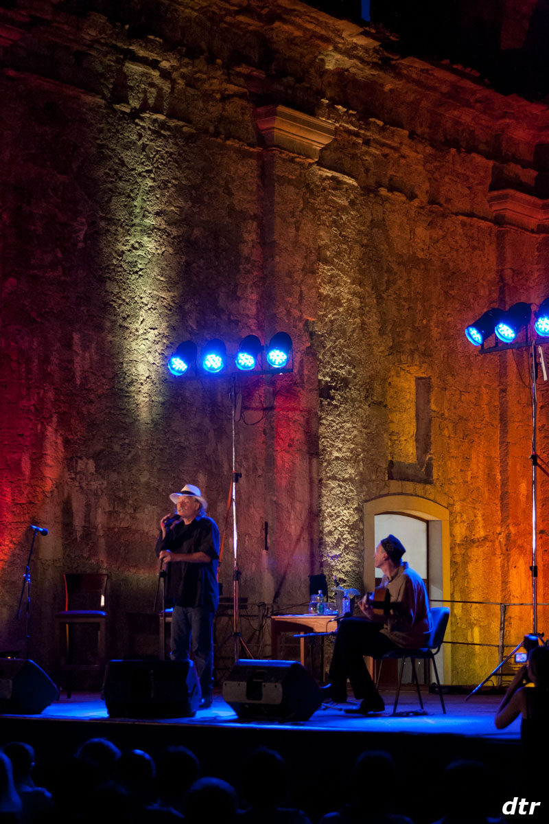 Rade Šerbedžija and Miroslav Tadić in Kastav